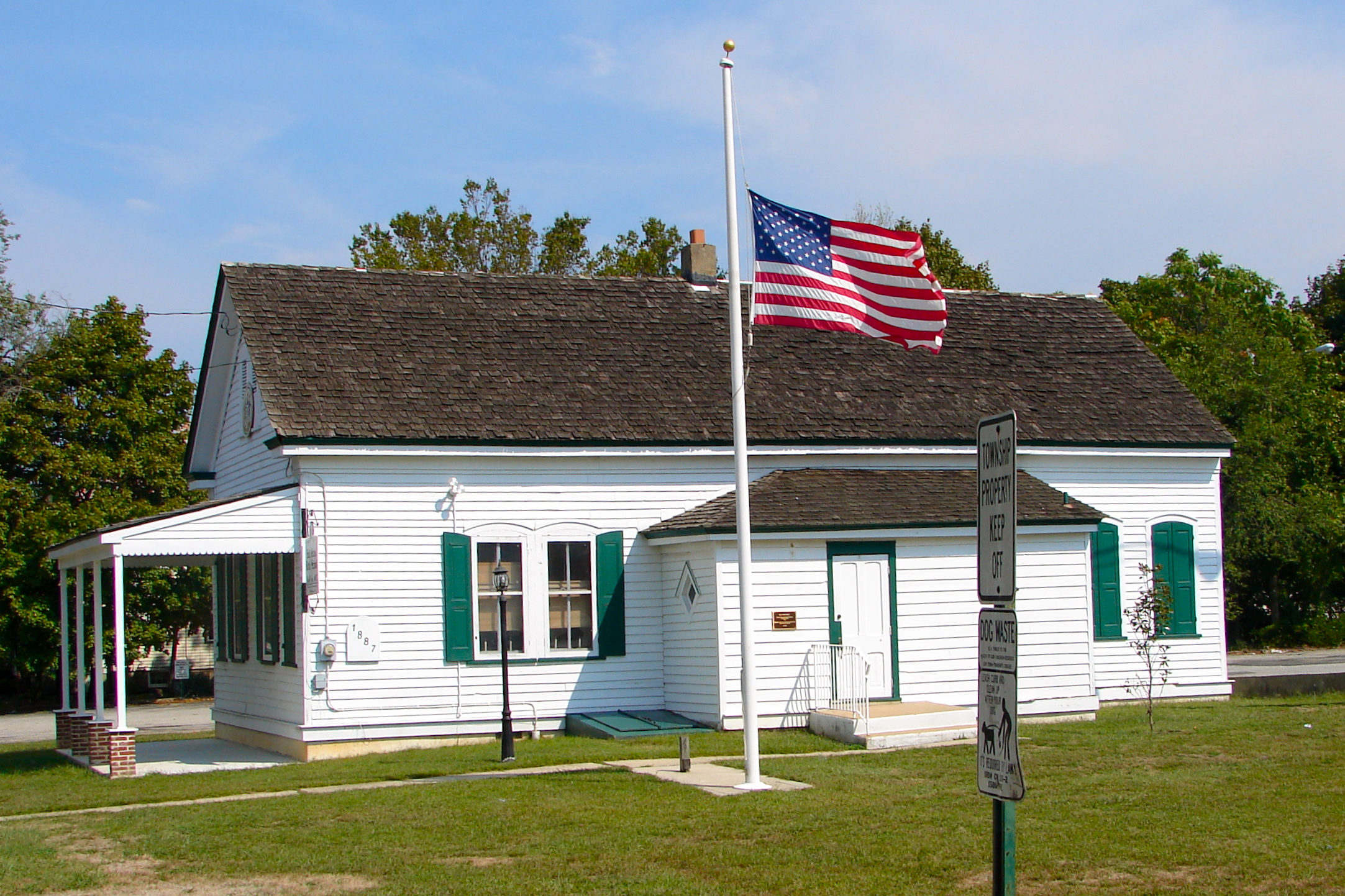 Hall Street School on the NRHP since September 27, 2006. At 30 Hall St., Monroe Township, Gloucester County, New Jersey